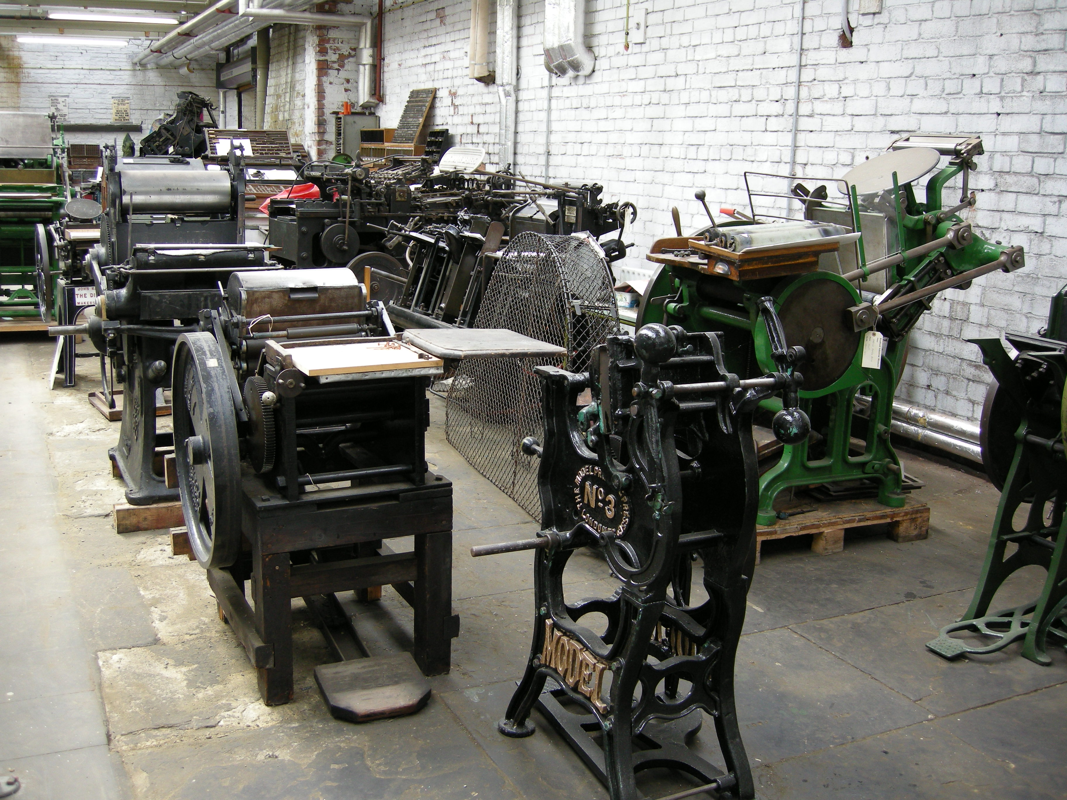 Printing equipment in the printing gallery at Bradford Industrial Museum, Bradford, West Yorkshire, England. 53.48'.40".N; 1.43'.16".W.